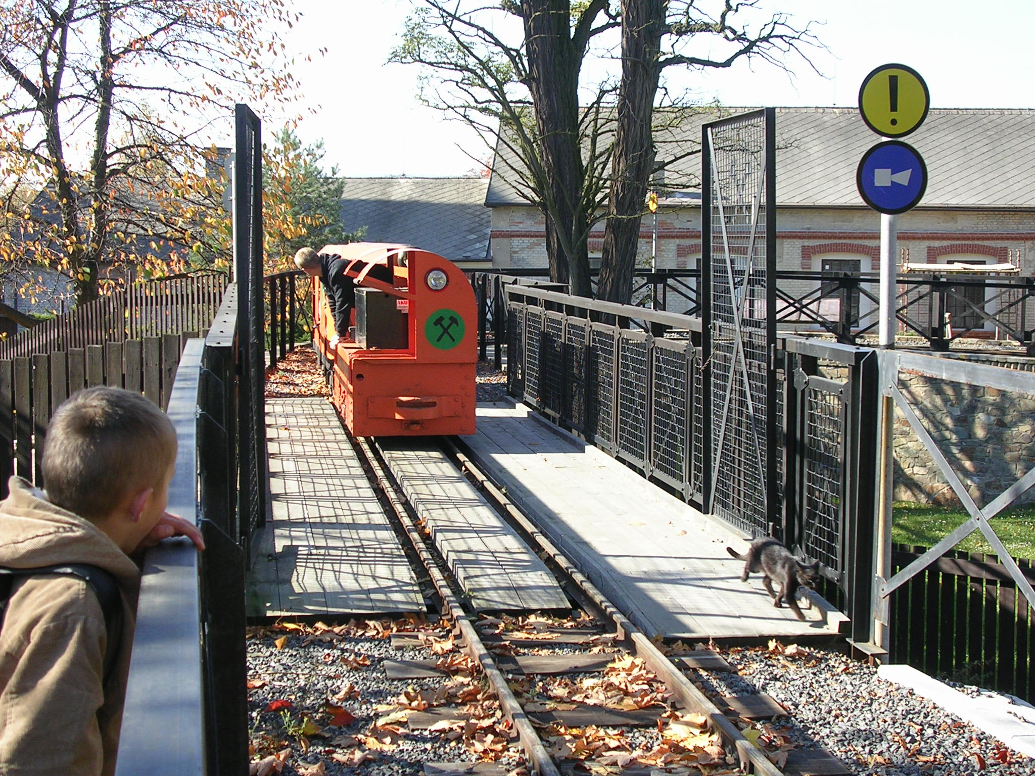 Příbram, mining museum.